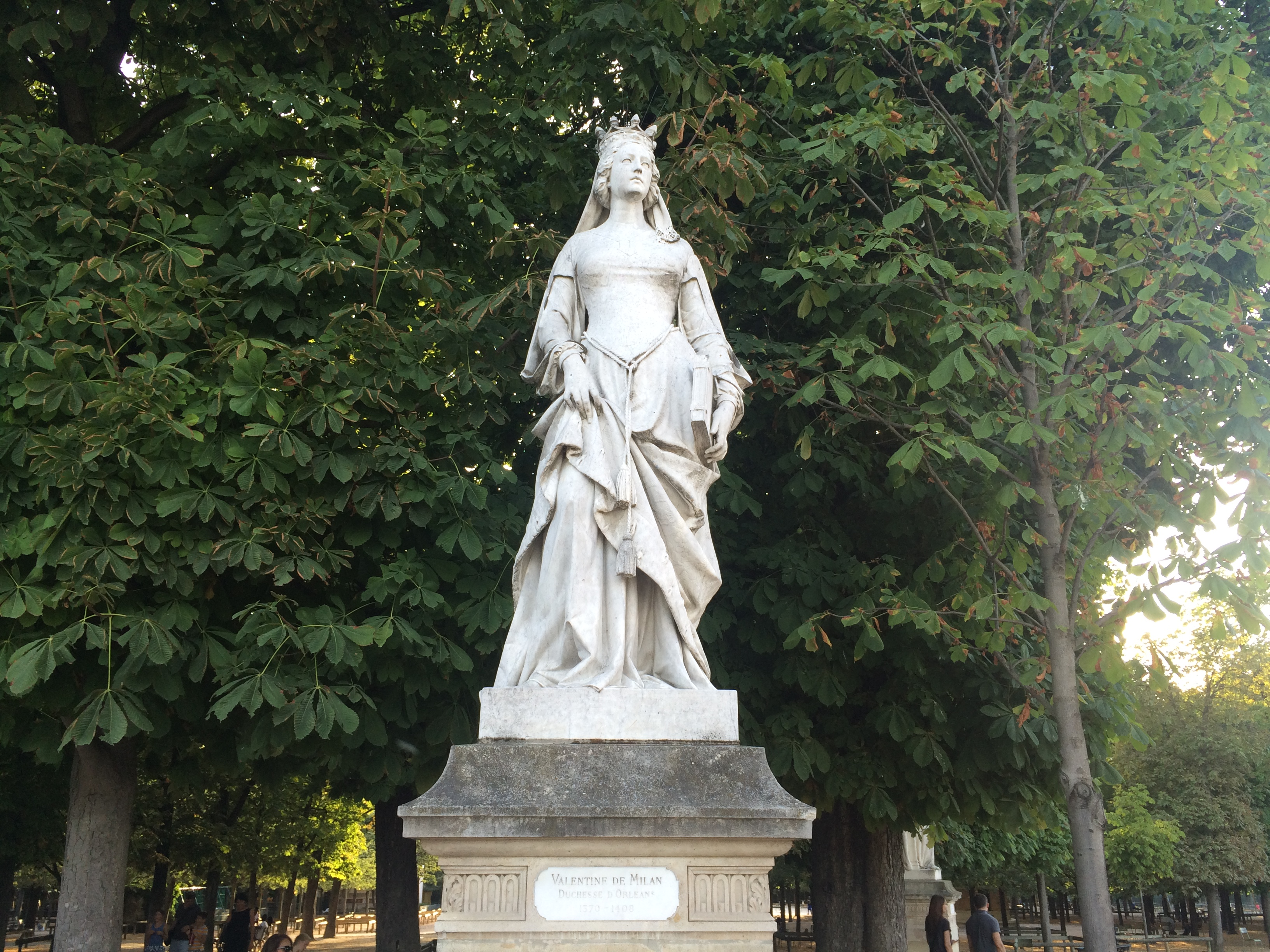 Valentina of Milan by Victor Huguenin, Jardin du Luxembourg, Paris, France.